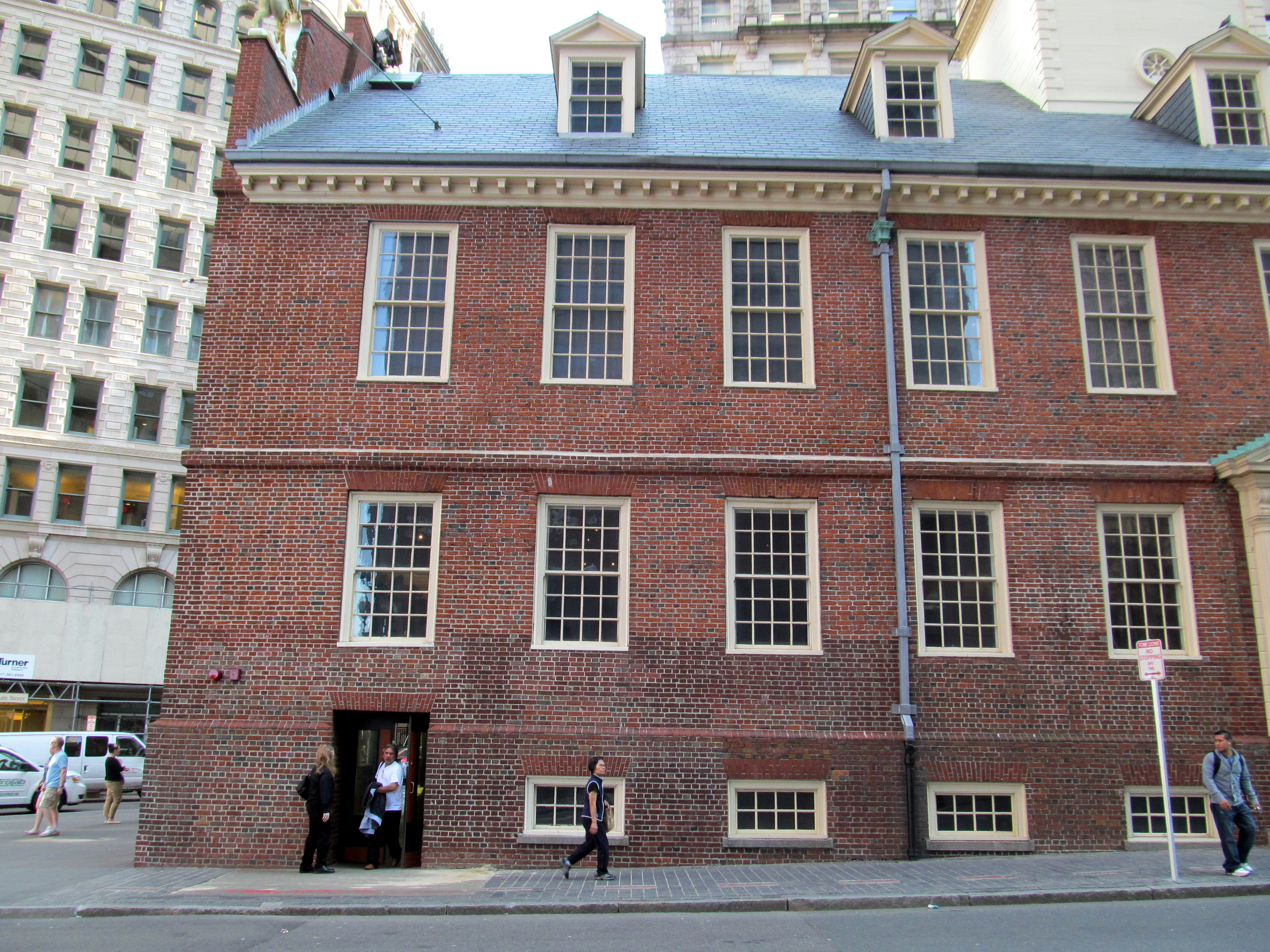 Looking at the Old State House across State Street. The entrance to the MBTA's State subway station is on the bottom left.